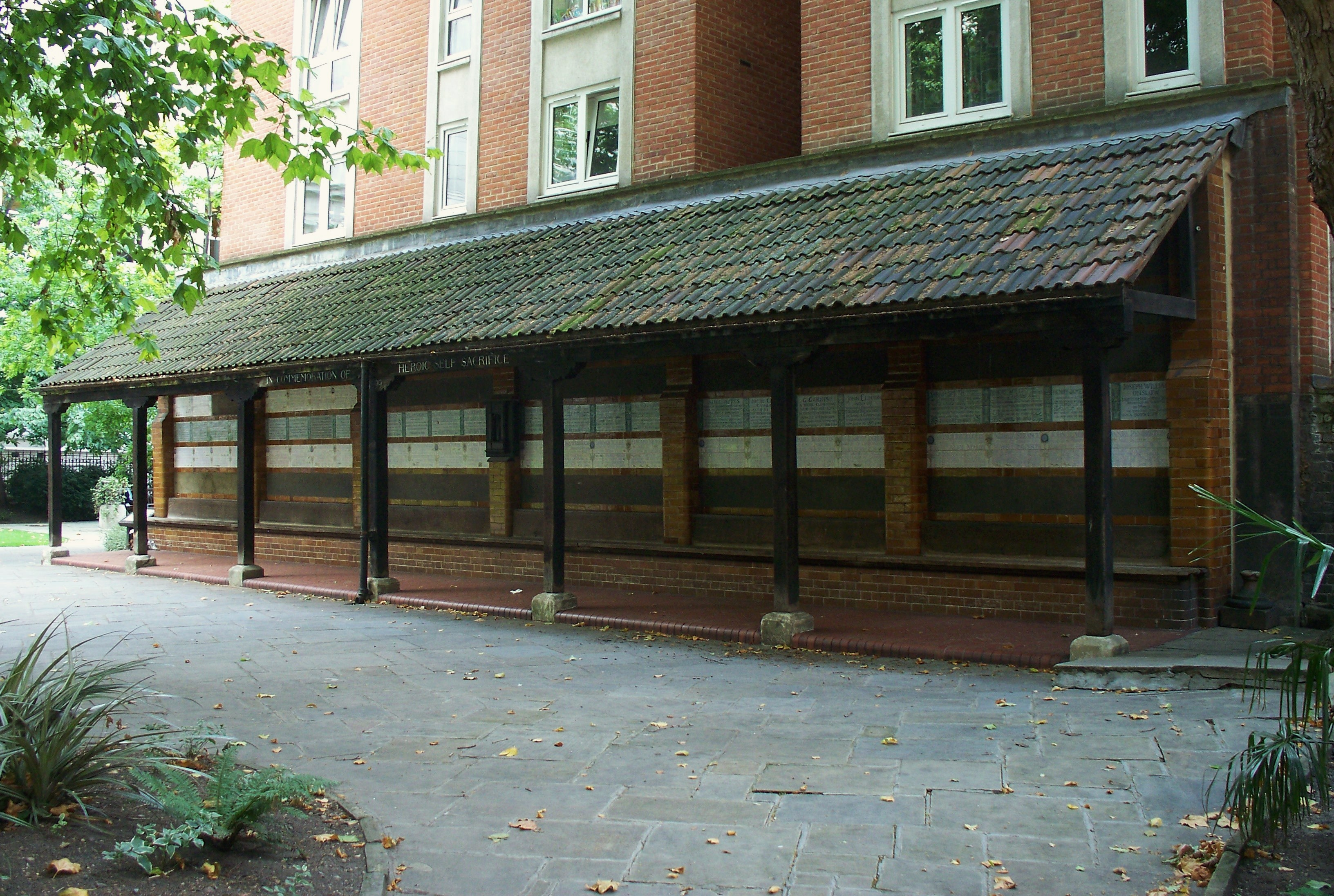 Wall of Heroes, Postman's Park, London. Photograph taken in a public location in the UK of a structure on permanent public display, and exempt from copyright under Section 62 of the Copyright Designs & Patents Act 1988 ("it is not an infringement of copyright to film, photograph, broadcast or make a graphic image of a building, sculpture, models for buildings or work of artistic craftsmanship if that work is permanently situated in a public place or in premises open to the public")